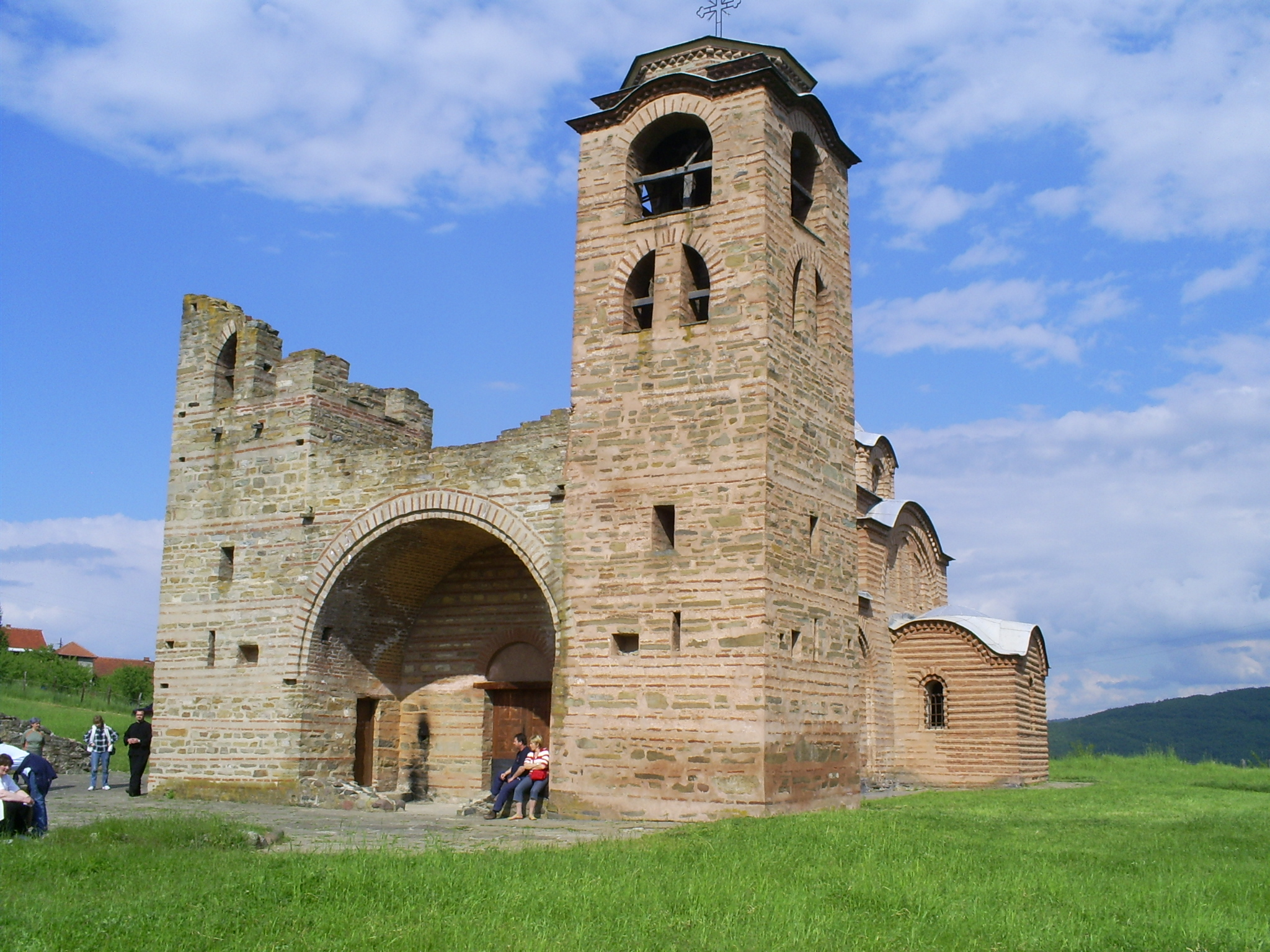 Saint Nicolas monastery, from middle of XII century, in Kuršumlija, Serbia.